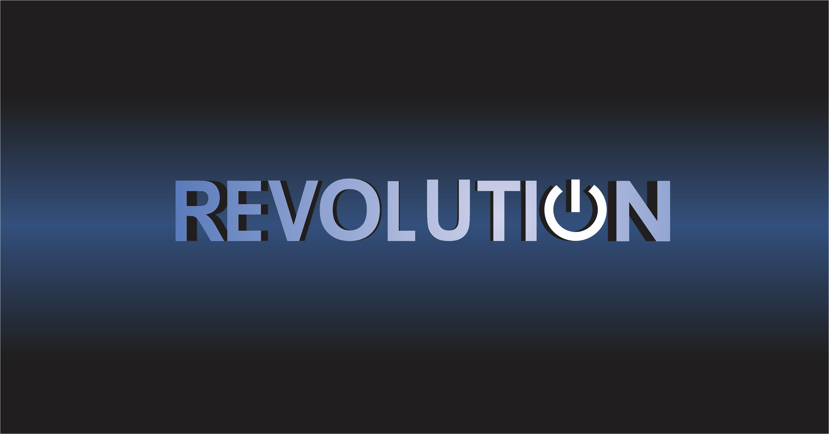 Logo TV series Revolution